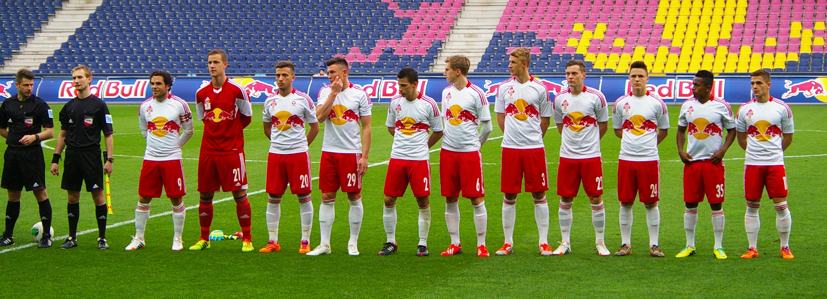 league match Austria 2nd league